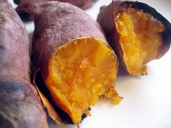 Gun-goguma (roasted sweet potatoes), made with hobak-goguma (pumpkin potatoes)